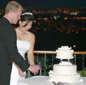 Photo of wedded American couple performing the ritual of cutting the cake together. At The Mountain Winery, Saratoga, California, US. Looking east over the Santa Clara Valley. The groom's ethnicity is German/Irish while the bride's is Japanese. Taken 6/26/04 by Paul Endo.